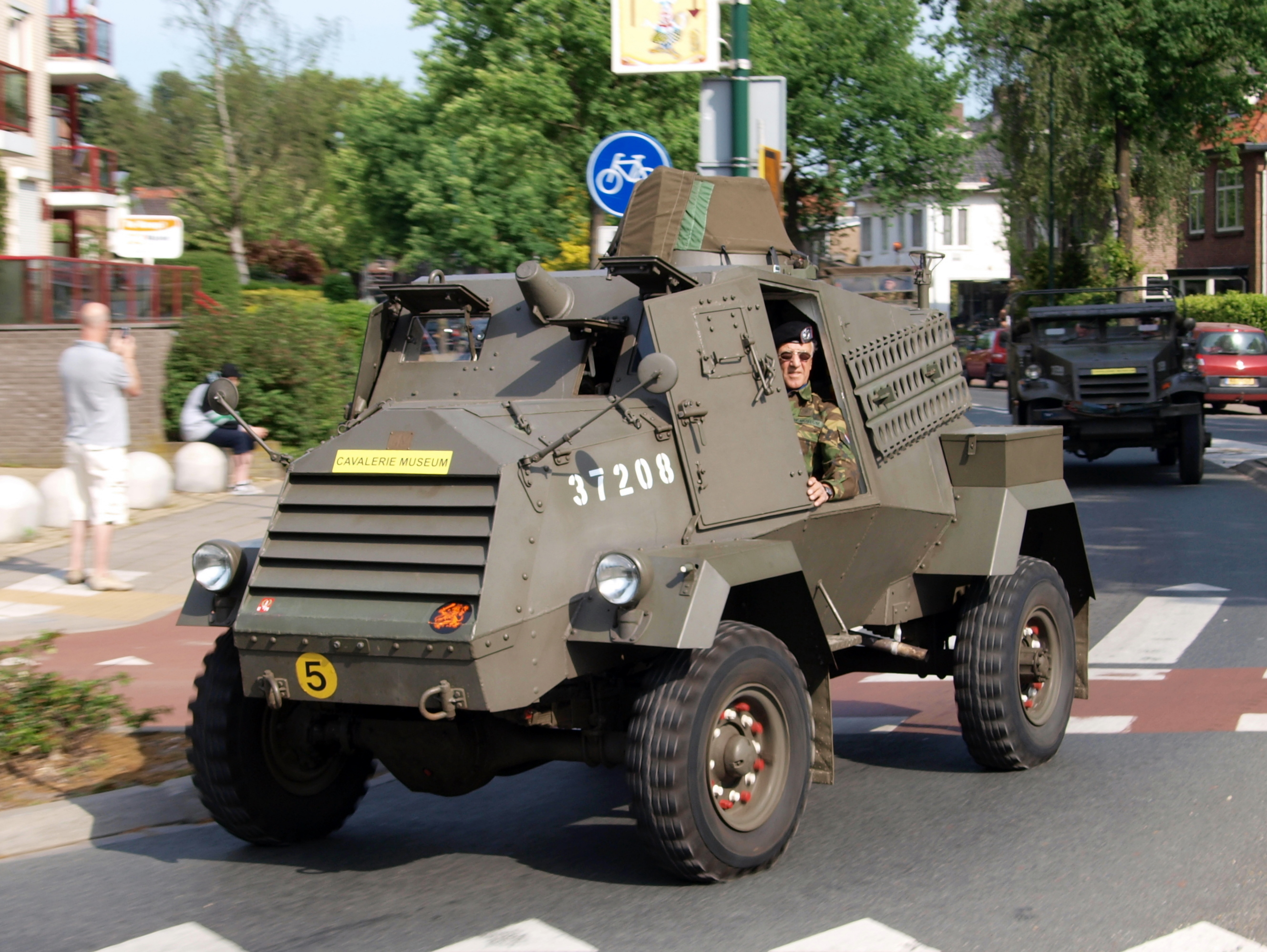 GMC Otter Light Reconnaissance Car (LRC), Bridgehead 2011